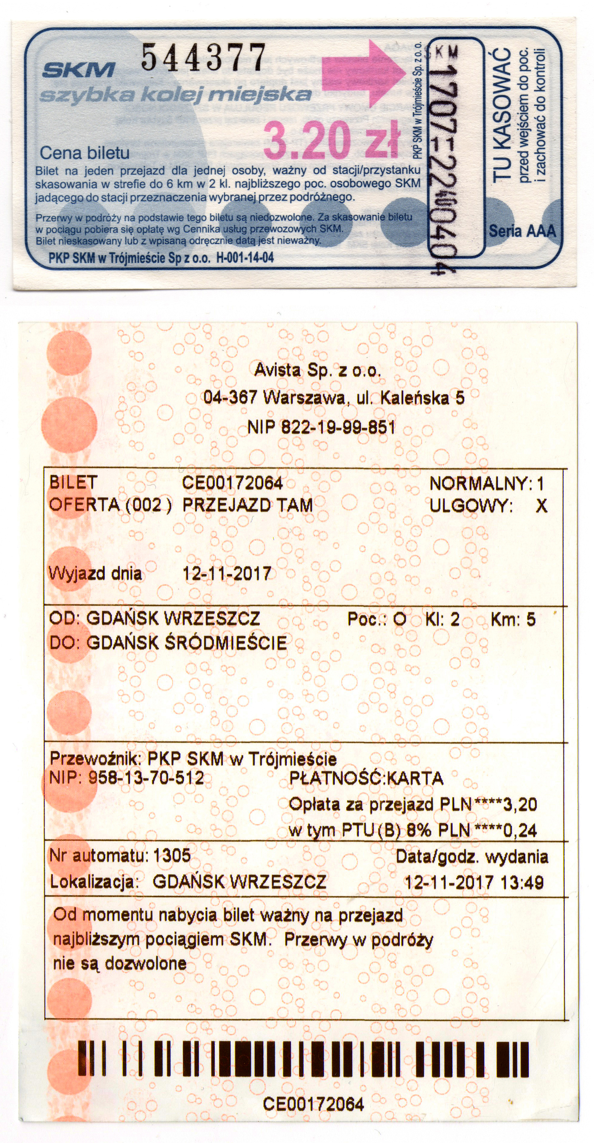 The top ticket is a booklet style ticket purchased from SKM office which requires validation before use. The bottom ticket is a machine issued for the immediate next train, no validation needed. Both tickets are the current 2017 style, full price for less than 6km of travel.